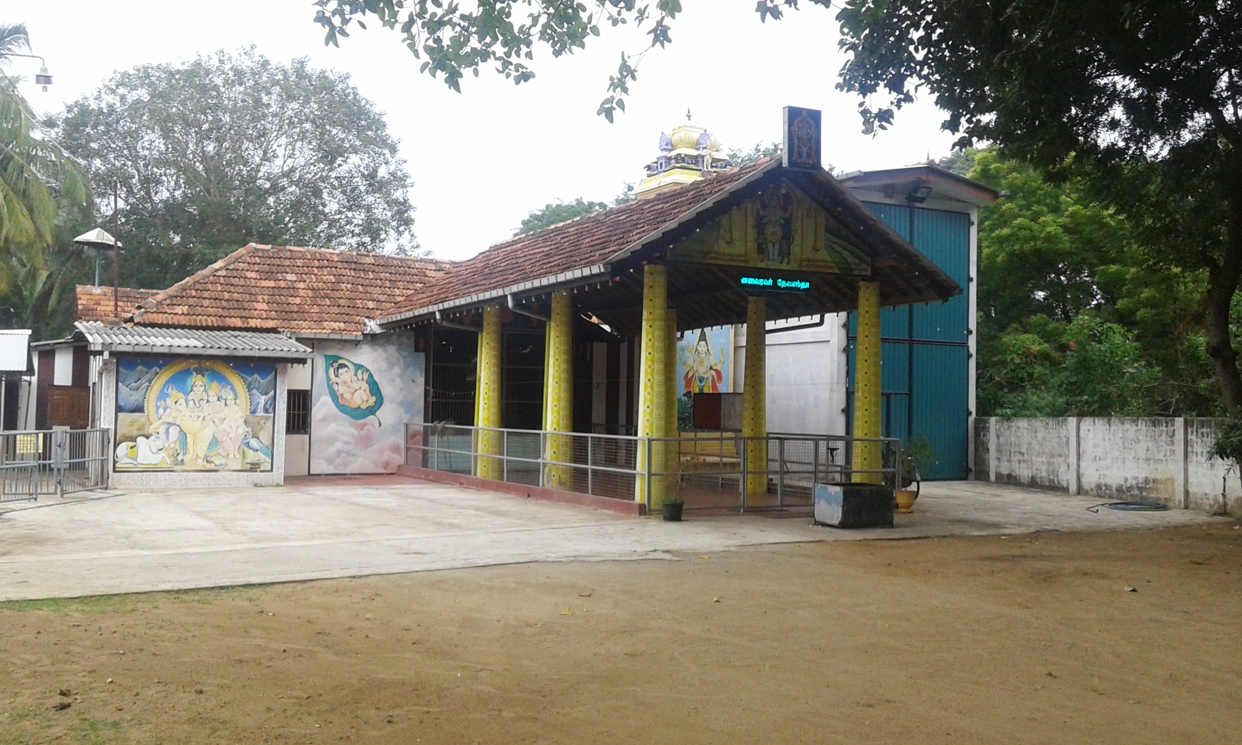 ஞானவைரவர் ஆலயம்